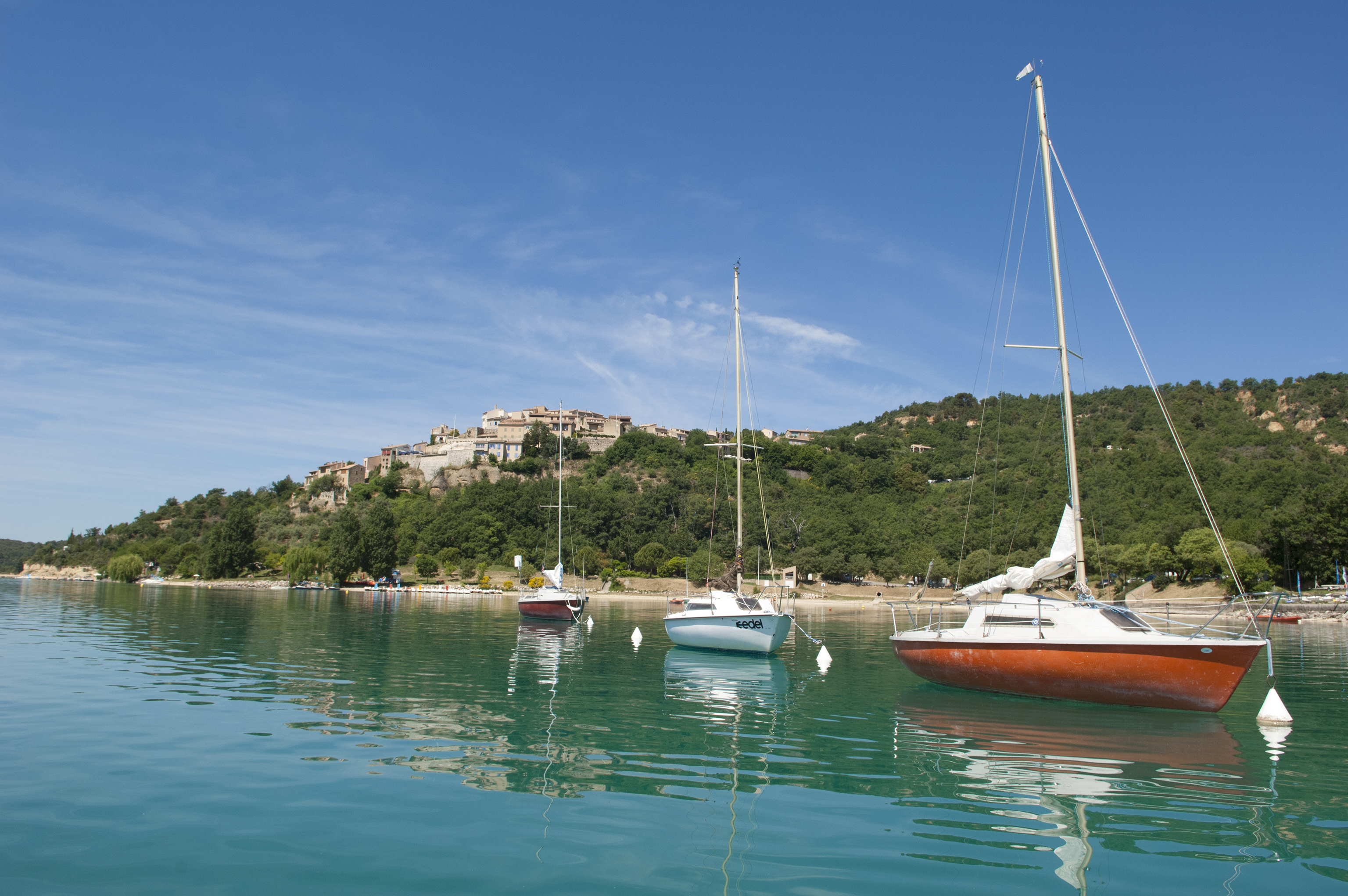 Sainte Croix du Verdon, village and lake, Alpes de Haute Provence, France